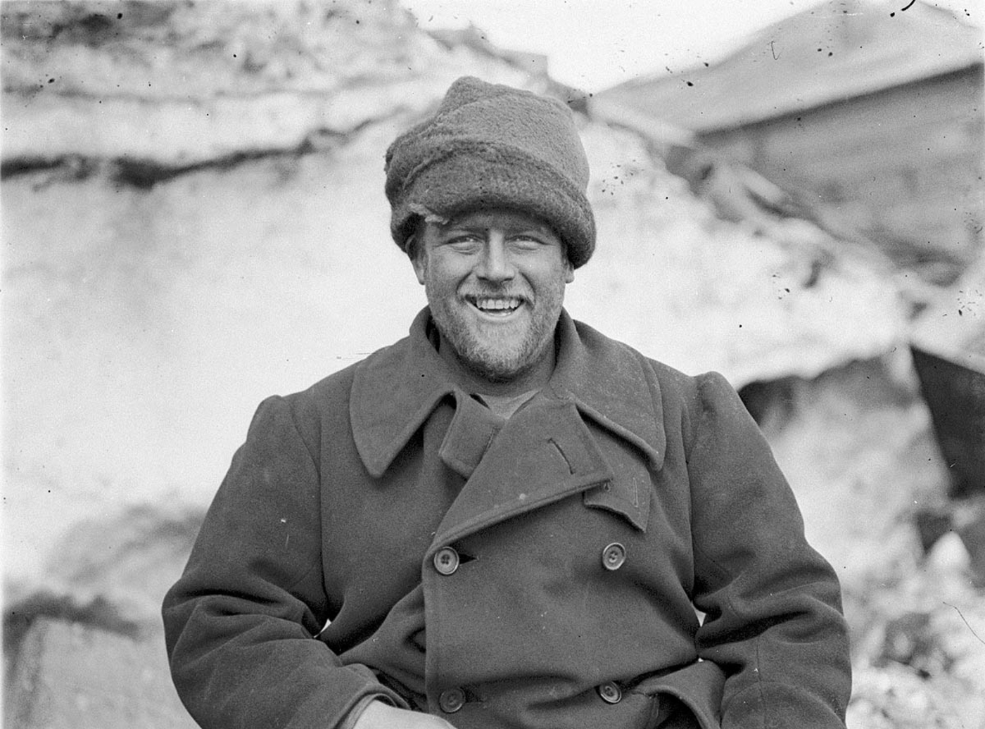 Photograph of Walter Hannam taken by Frank Hurley during the Australasian Antarctic Expedition, 1911-1914.